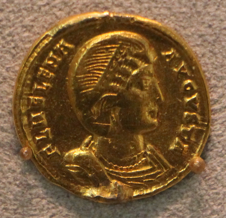 Ancient Roman coins in the Altes Museum Berlin